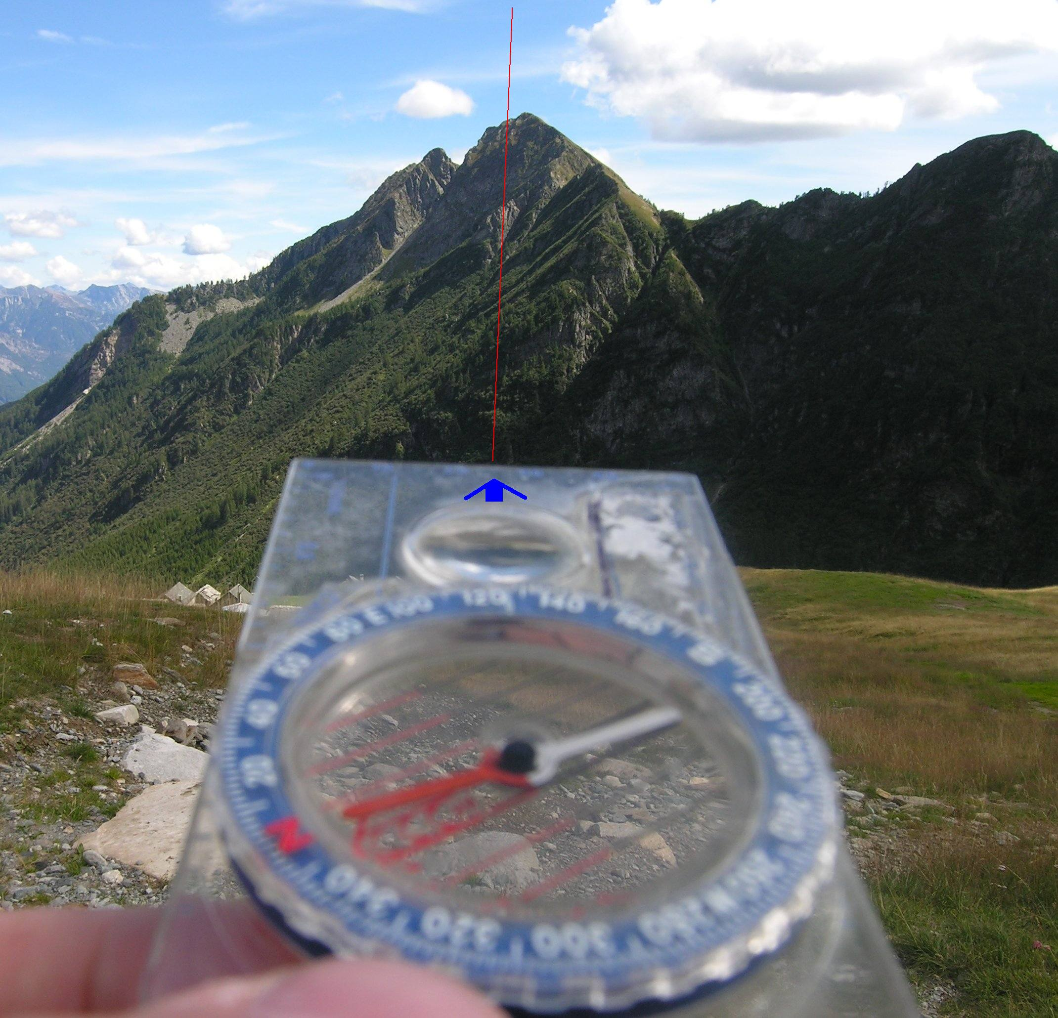 Using compass (second stage, target)